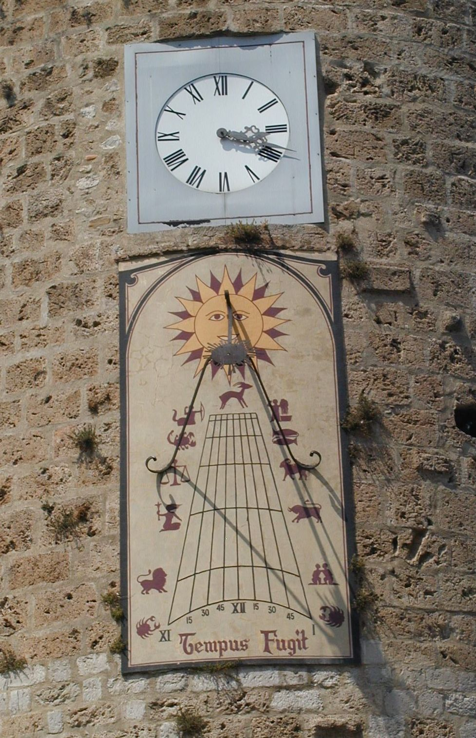 Sundial in Anduze (Gard, France).